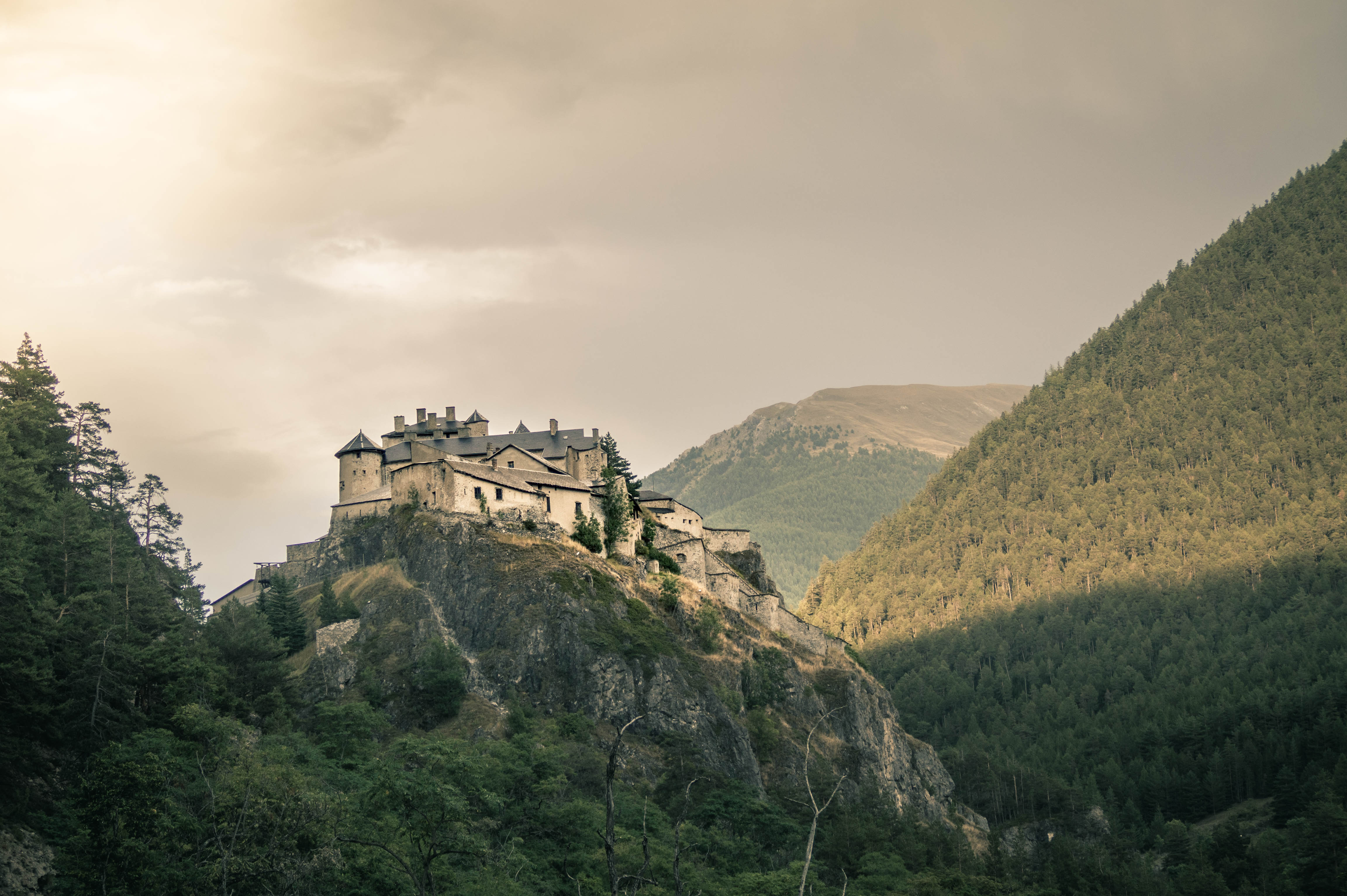 This is Fort Queyras. A stronghold located in the High Alps, and built during the 13th century. Even the famous French architect Vauban has worked on it during the 17th and 18th century, to make it stronger. Nowadays, Fort Queyras is a private property, but open to the public. .